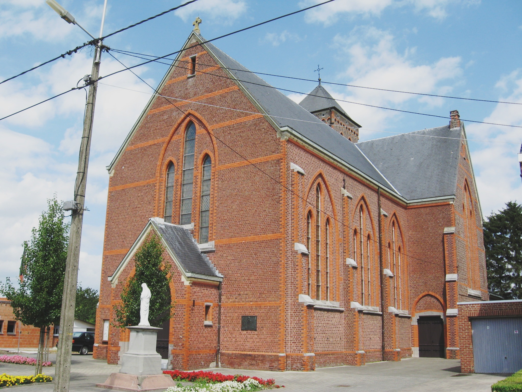 Church of Saint Joseph in Rijkel, Borgloon, Limburg, Belgium